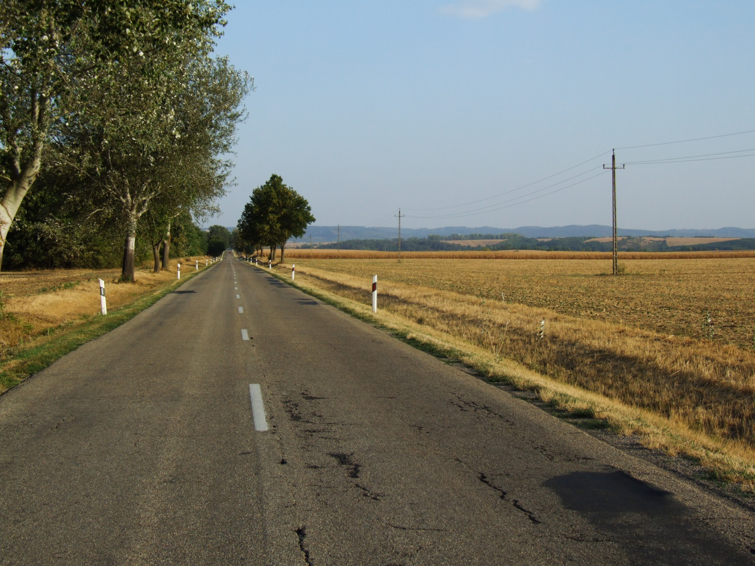 Road 65 in Hungary